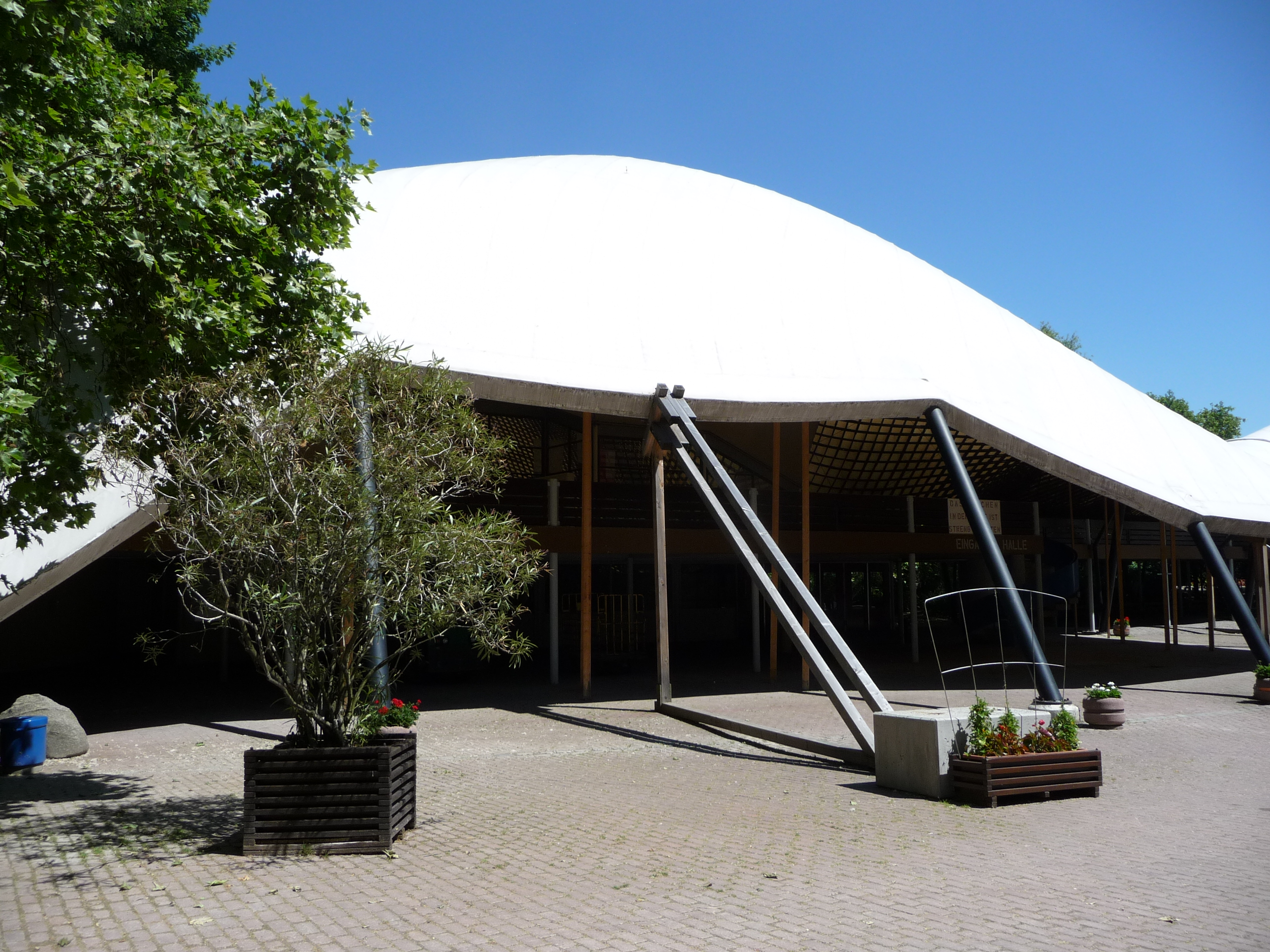 Herzogenriedpark Mannheim